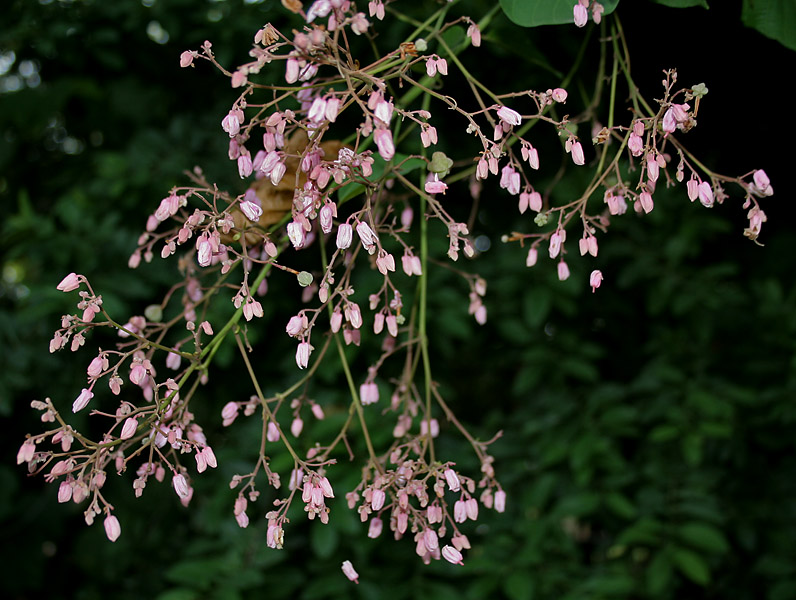 Bola or Tree Antigonon Kleinhovia hospita in Hyderabad , India.